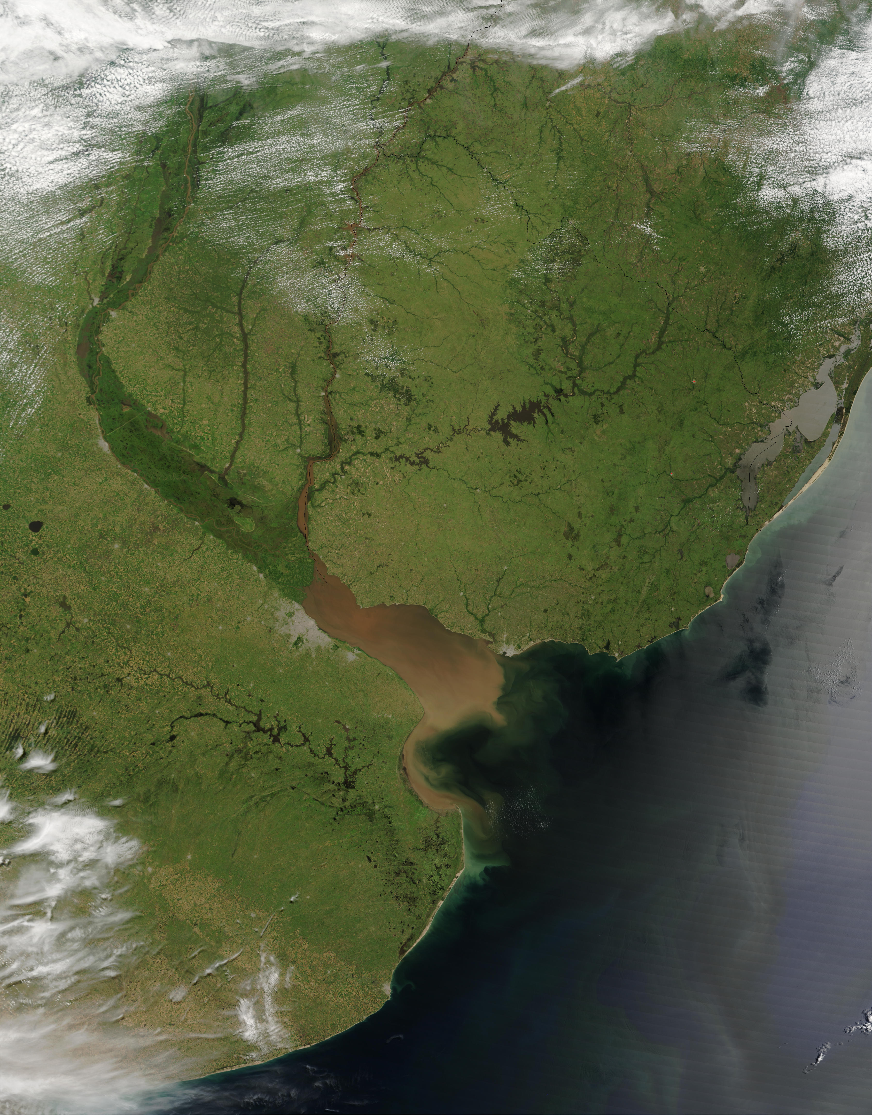 This true-color Moderate Resolution Imaging Spectroradiometer (MODIS) image from December 21, 2002, shows the onset of Southern Hemisphere summer across Argentina (left), Uruguay (center), and southern Brazil (upper right.) From the flat grasslands of Argentina, known as the Pampas, the terrain transitions to gently rolling hills in Uruguay. The terrain rises still more in southern Brazil. The Parana River makes a wide, dark green swath running through eastern Argentina before joining with the Uruguay River along the western border of Uruguay and emptying into the Rio de la Plata Estuary. At the mouth of the Rio de la Plata (south side) a gray patch indicates the location of Buenos Aires. Credit Jeff Schmaltz, MODIS Rapid Response Team, NASA/GSFC NASA Goddard Space Flight Center is home to the nation's largest organization of combined scientists, engineers and technologists that build spacecraft, instruments and new technology to study the Earth, the sun, our solar system, and the universe. Follow us on Twitter Join us on Facebook